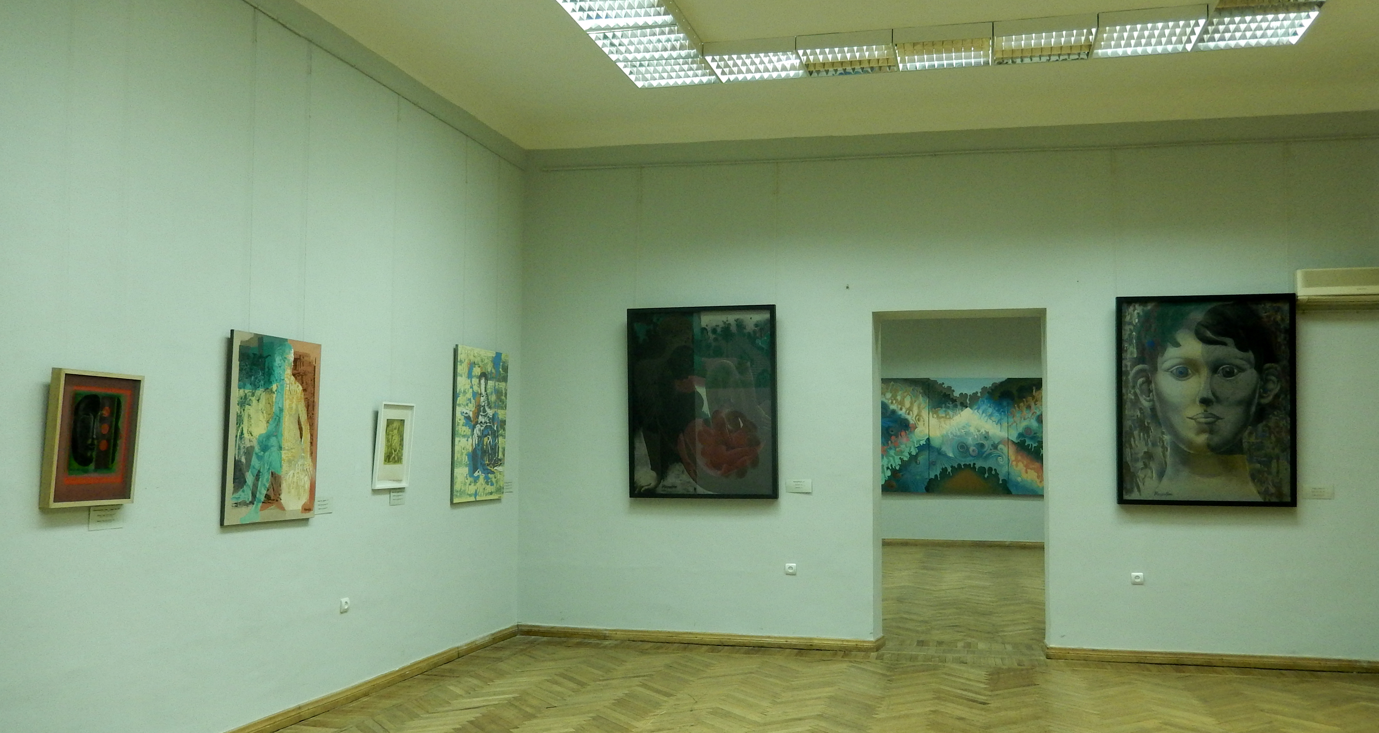 Jean Kazanjian's exhibition in National Gallery of Armenia, 2014